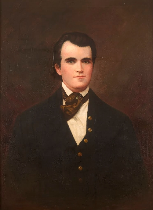 Portrait of John M. Gregory, former acting Governor of Virginia